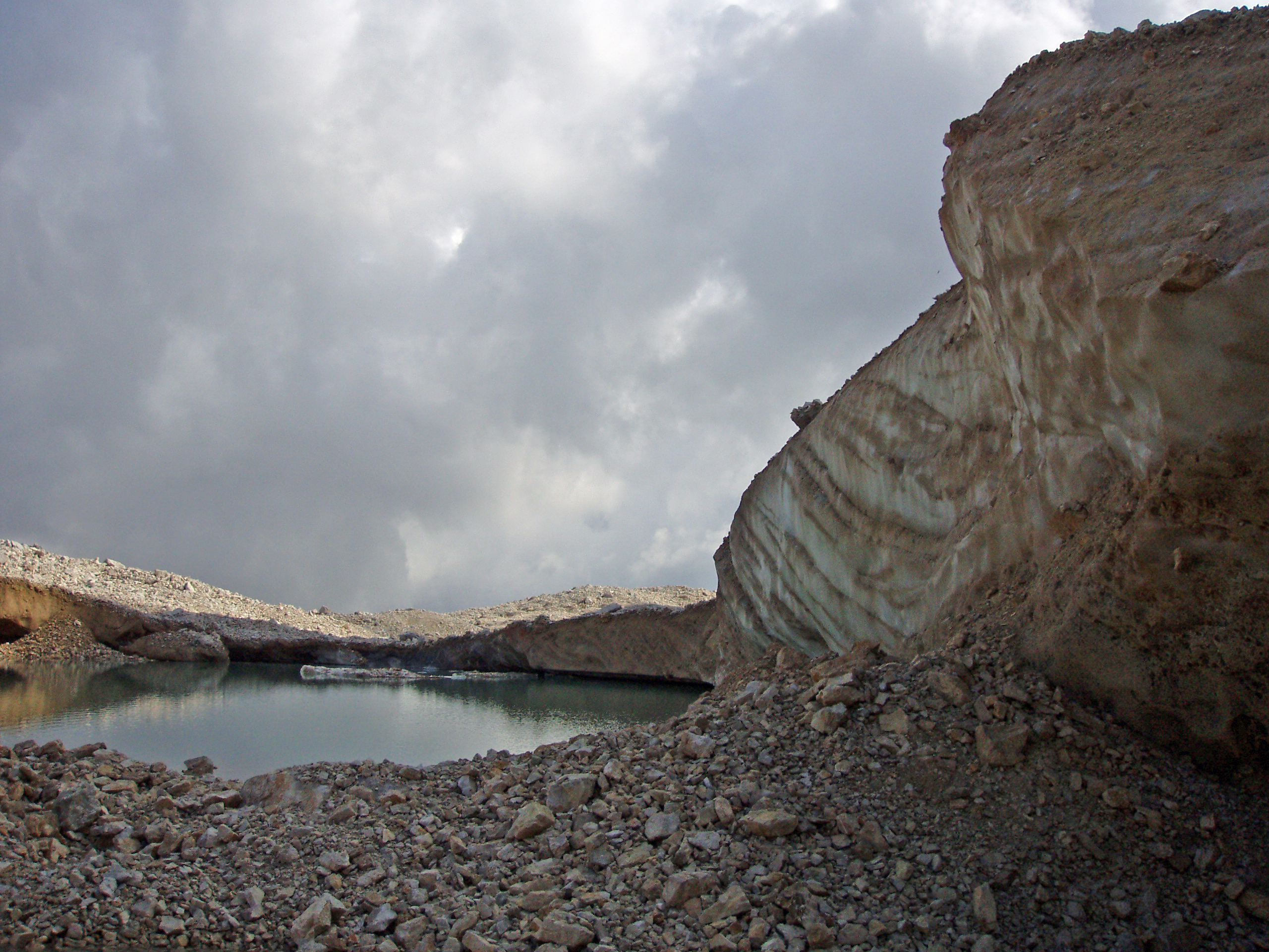 Lech dl Dragon in 2005.